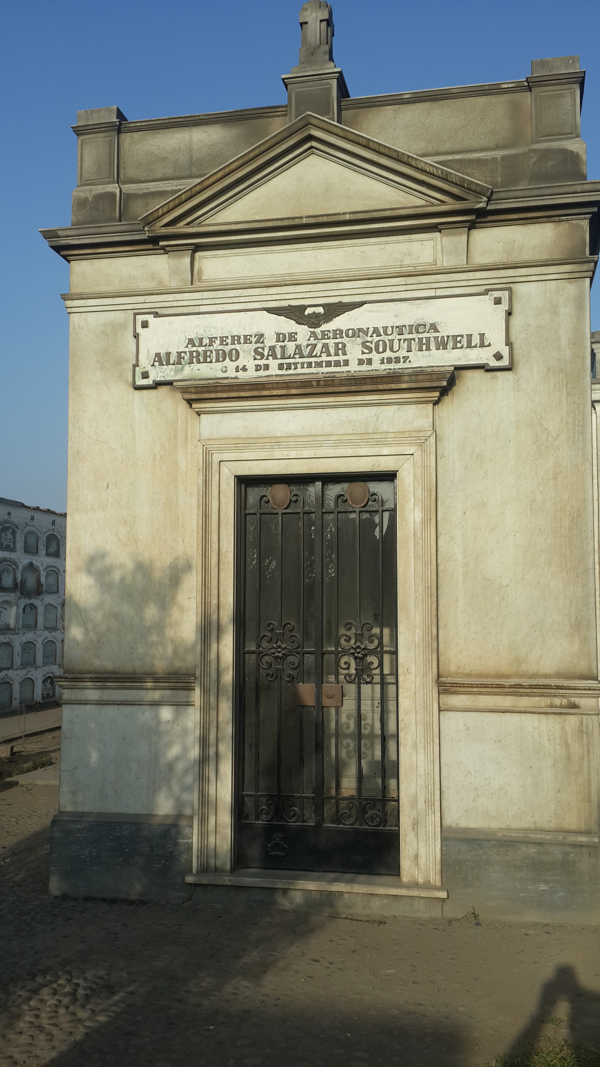 Mausoleum of Alfredo Salazar Southwell, in General Cementery Presbítero Maestro in Lima, Peru.